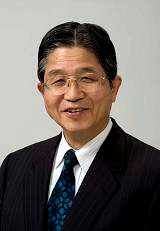 Akira Fujishima, President of Tokyo University of Science, received the Person of Cultural Merit on November, 2010.